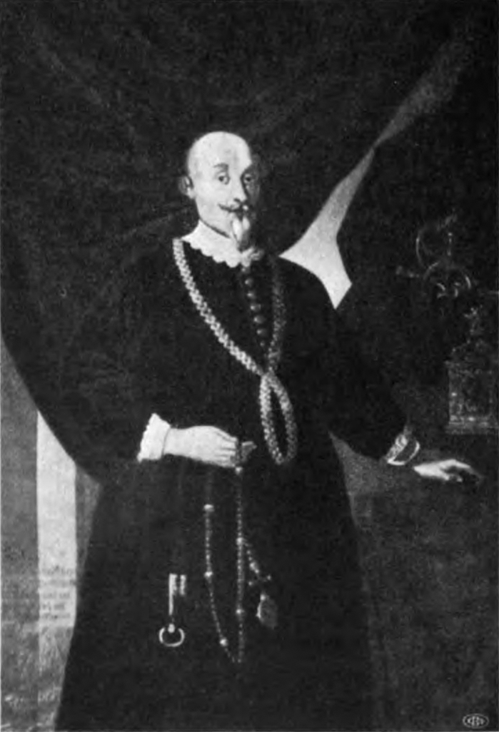 Johann Ludwig von Kuefstein